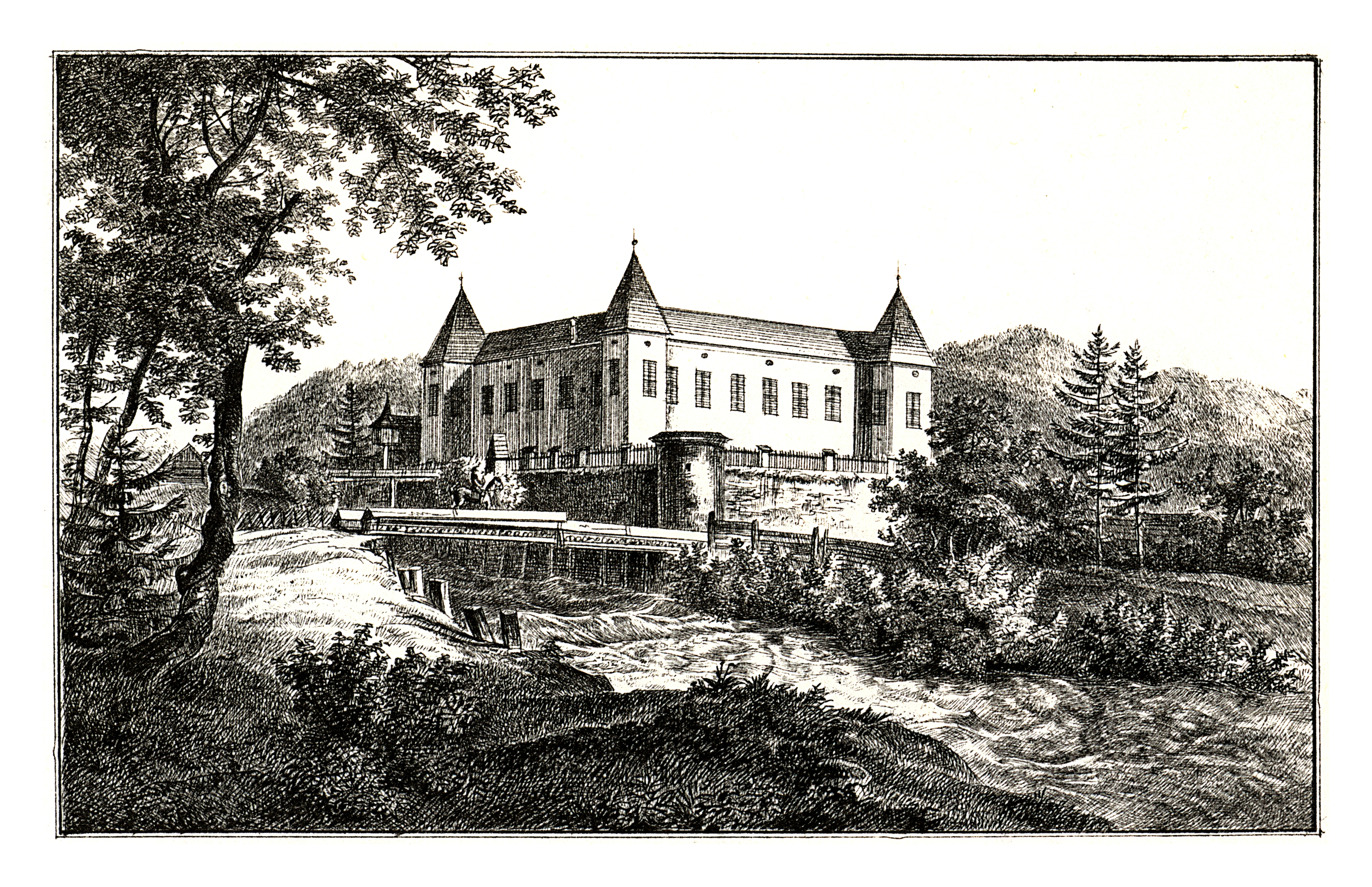 J. F. Kaiser - lithographirte Ansichten der Steyermärkischen Städte, Märkte und Schlösser, Graz 1824-1833. Joseph Franz Kaiser (1786–1859) Alternative names J. F. KaiserDescriptionAustrian printer and editorDate of birth/death 11 March 1786 19 September 1859Location of birth/death Graz (Styria) GrazAuthority control : Q1499963 VIAF: 30629353 ISNI: 0000 0000 3083 0153 LCCN: n87141671 GND: 129880159 NLP: A24960305 WorldCat creator QS:P170,Q1499963